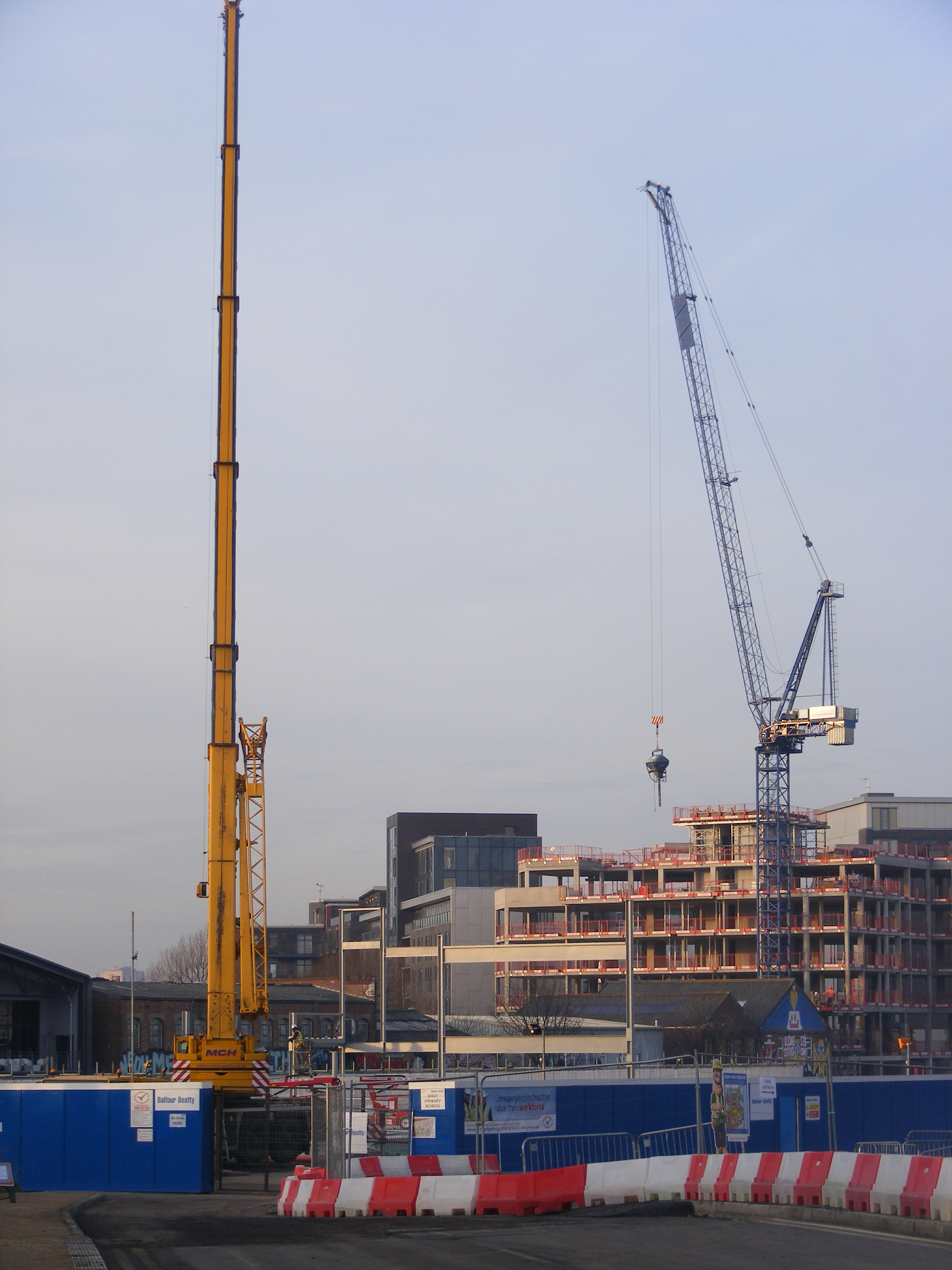 Olympic Park December 2016 with construction site on Fish Island and next to the Olympic stadium, the Bobby Moore Academy junior school